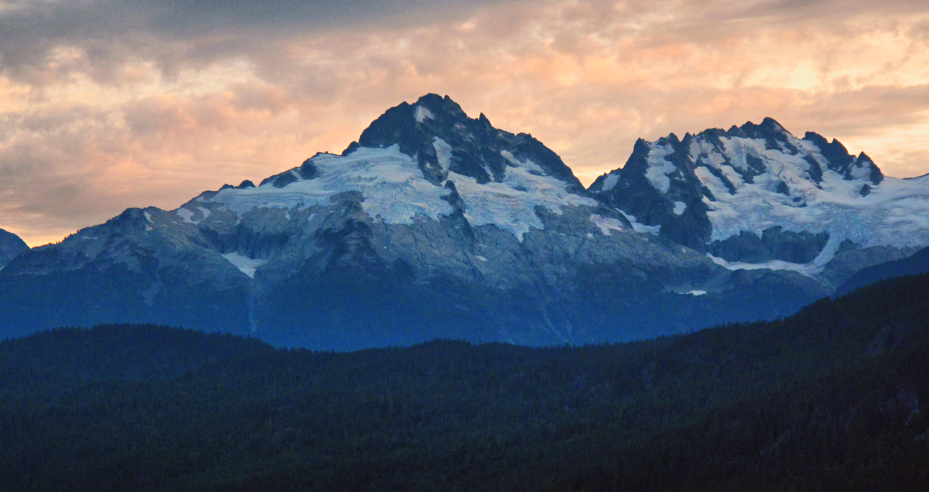 Alpha Mountain and Serratus Mountain seen from Sea-to-Sky Highway